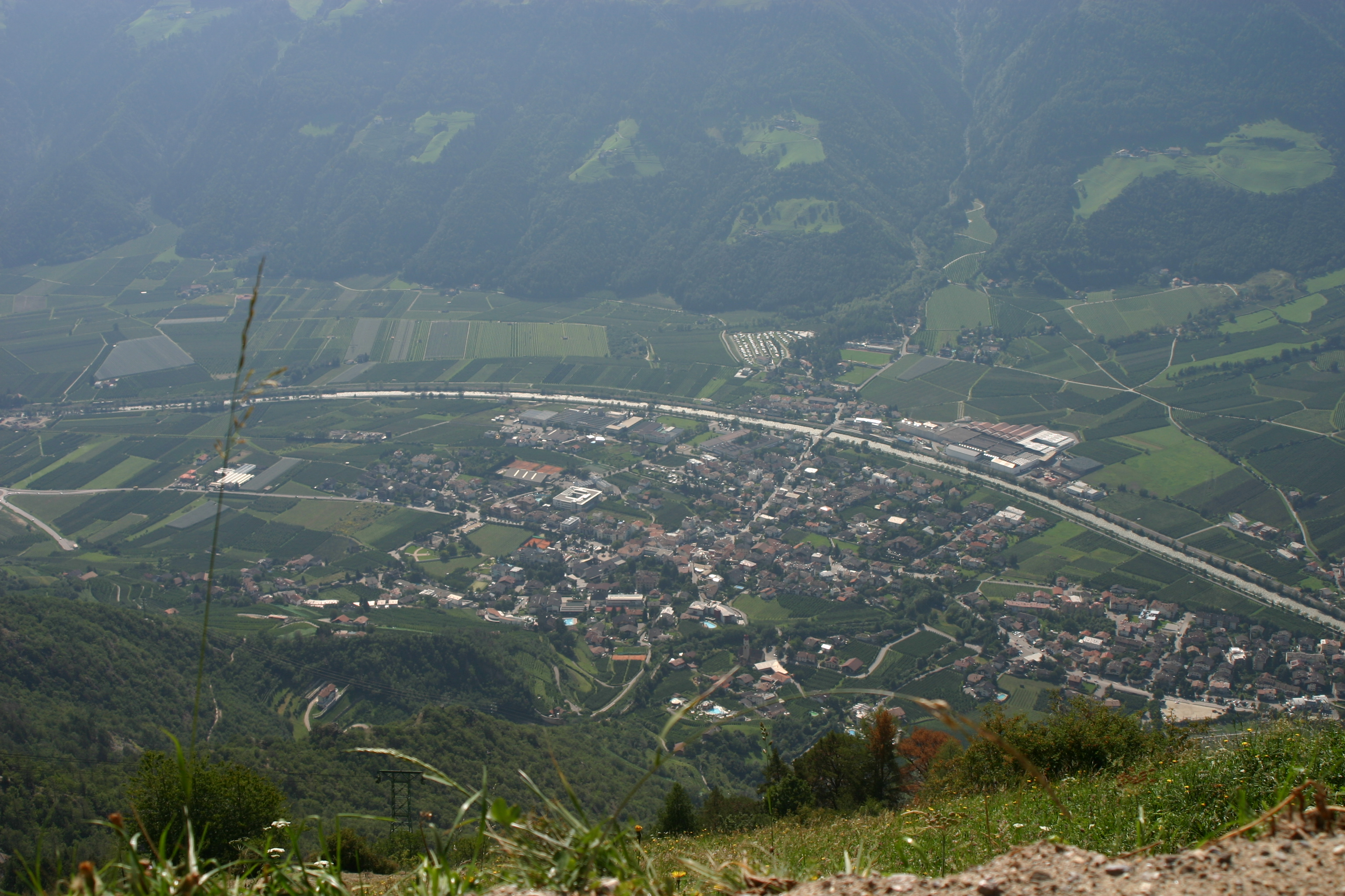 Naturns in South Tyrol, Italy